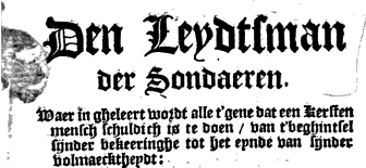 Dutch translation of a French translation of the original work by Luís de Grenada.